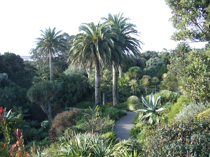 Tresco Abbey Gardens, in the Scilly island